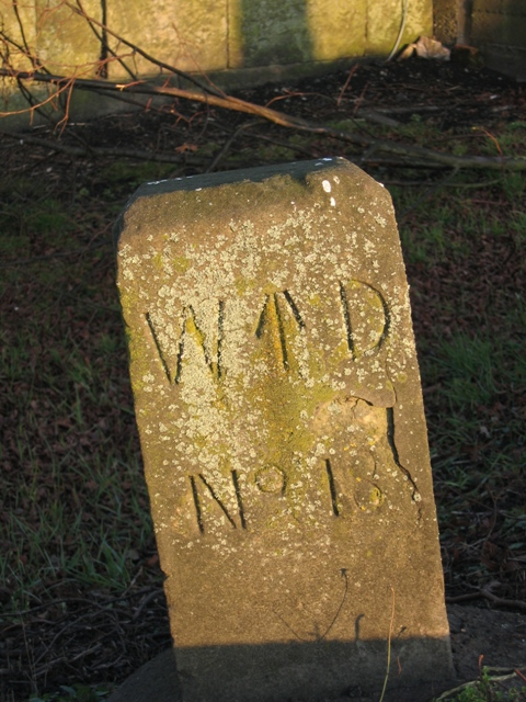 War Department boundary stone 18 at Chester Castle. This War Department boundary stone No.18 is located on the edge of the moat around Chester Castle square. See also 697271.